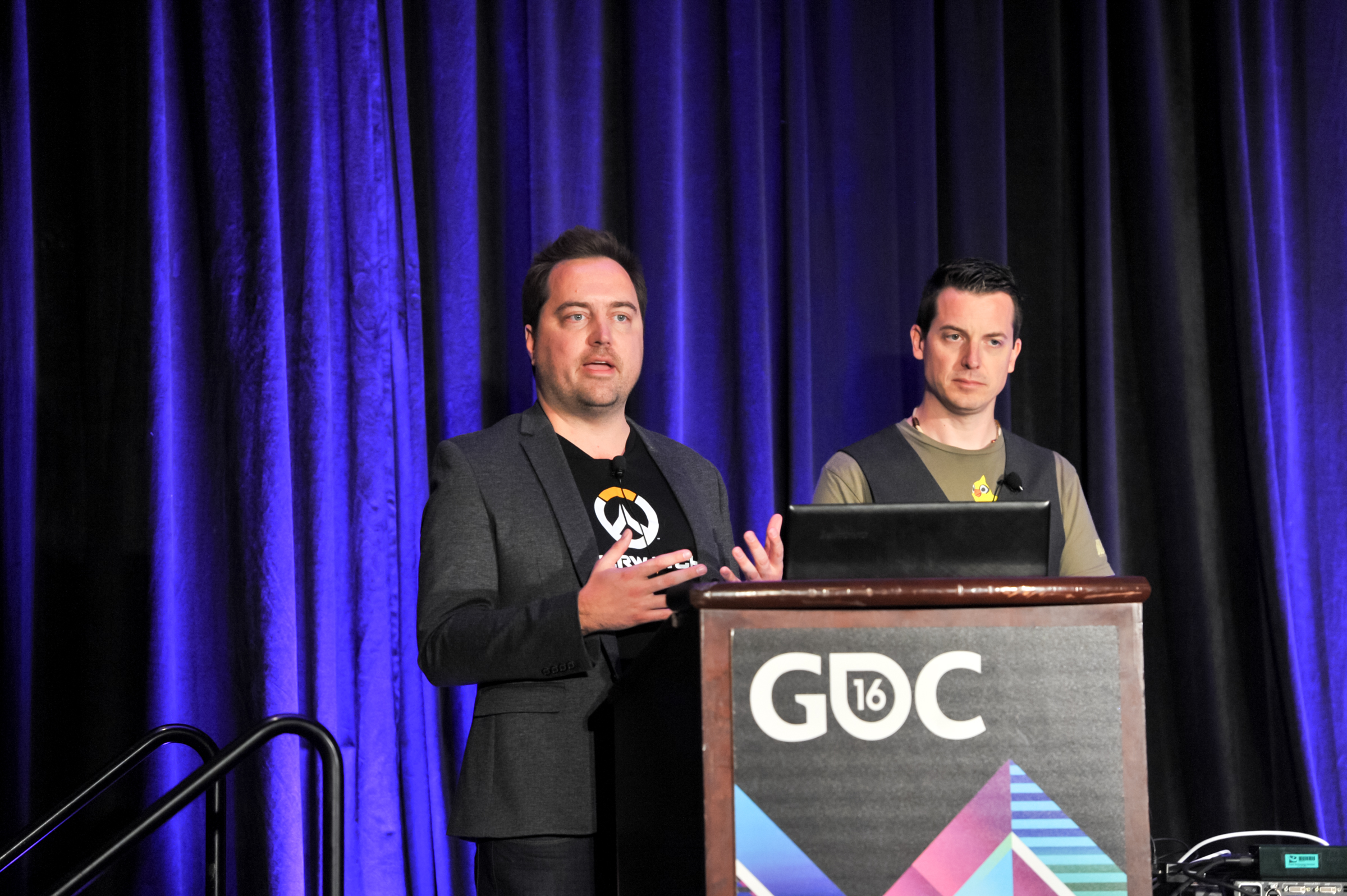 Overwatch - The Elusive Goal: Play by Sound Scott Lawlor | Senior Sound Designer, Blizzard Entertainment Tomas Neumann | Senior Software Engineer, Blizzard Entertainment Location: Room 3002, West Hall Date: Friday, March 18 Time: 1:30pm - 2:30pm